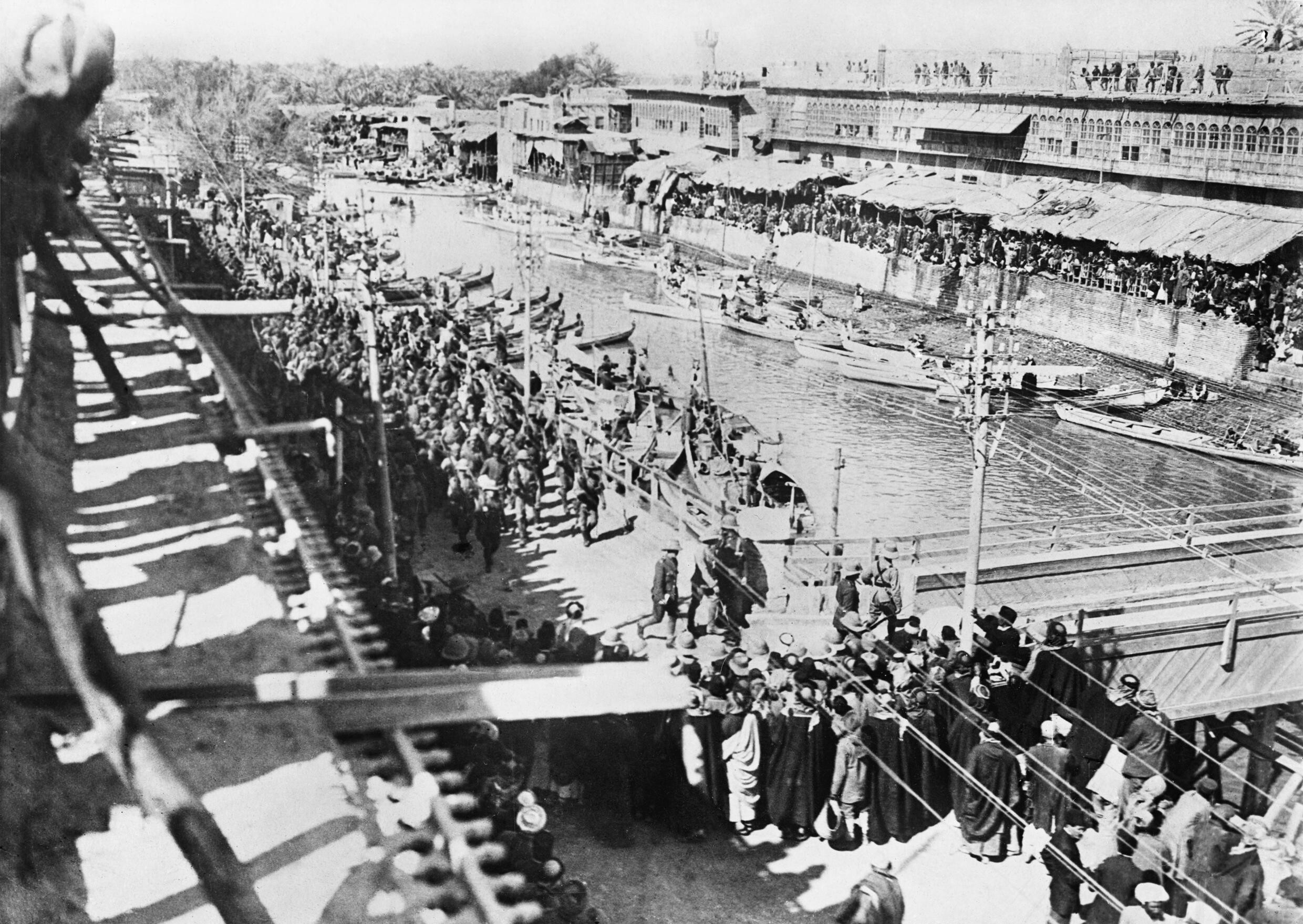 Ministry of Information First World War Official Collection Turkish prisoners passing along the bank of Ashar Creek, nearing Whiteley's Bridge, Basra 1917.